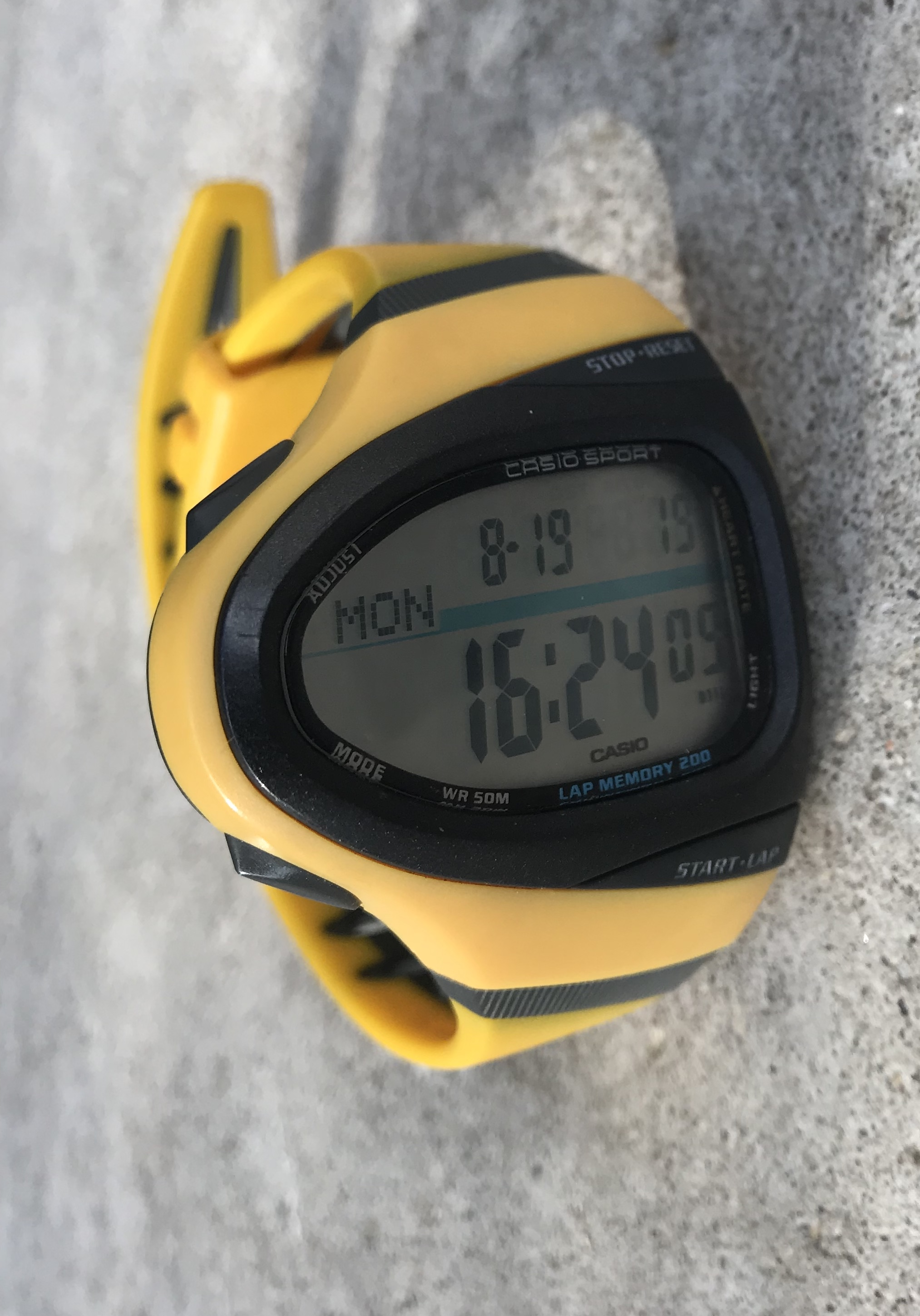 Casio Sport watch